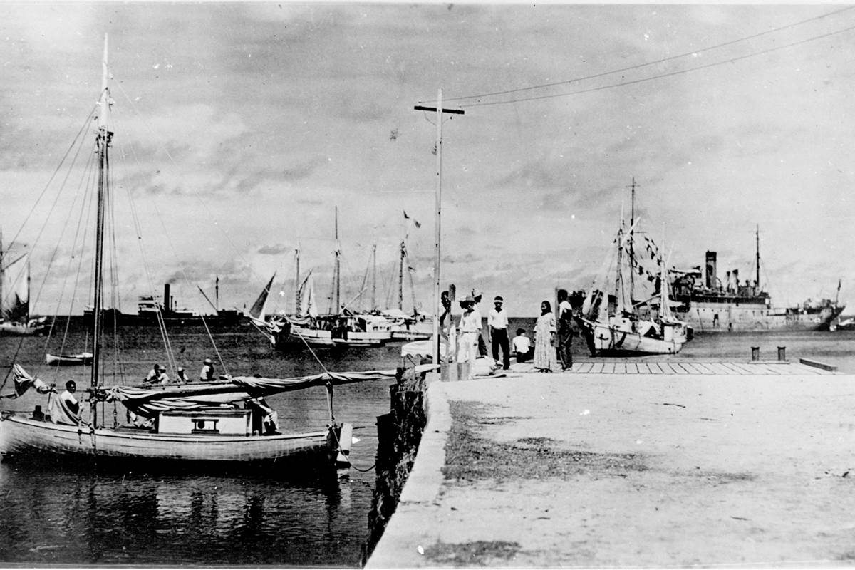 Photograph that purports to show Amelia Earhart and Fred Noonan in the Marshall Islands after their capture by the Japanese, National Archives and Records Administration